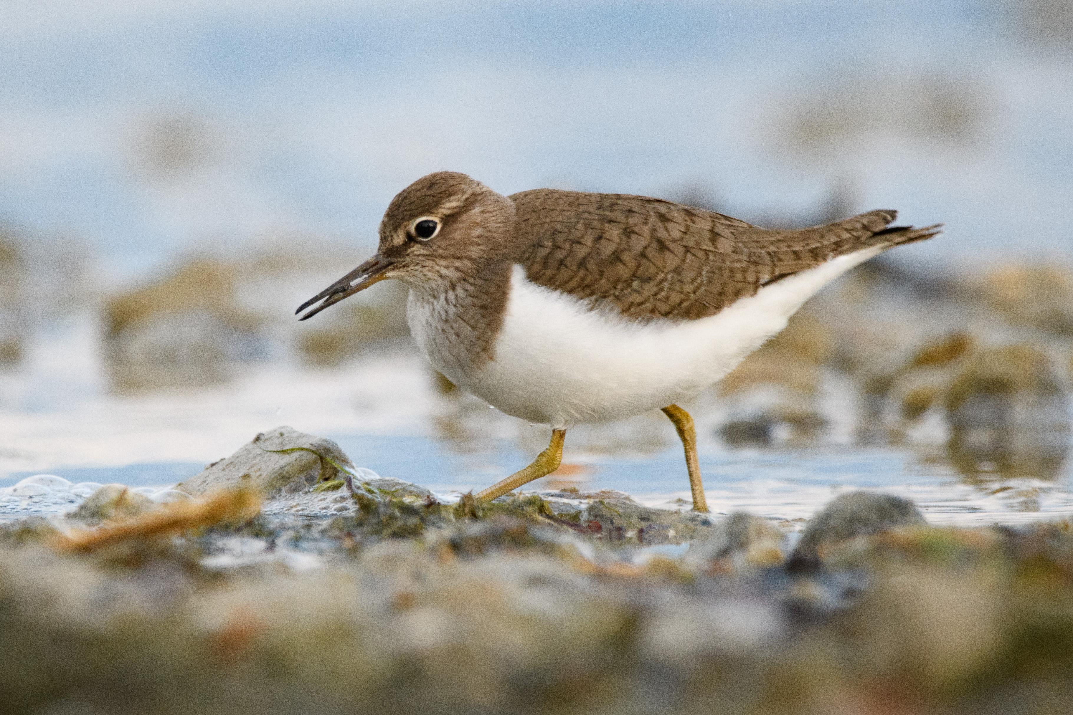 Common Sandpiper at the shore of lake Geneva.